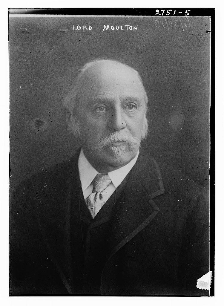 Photo of Lord Moulton, British Scientist and Barrister